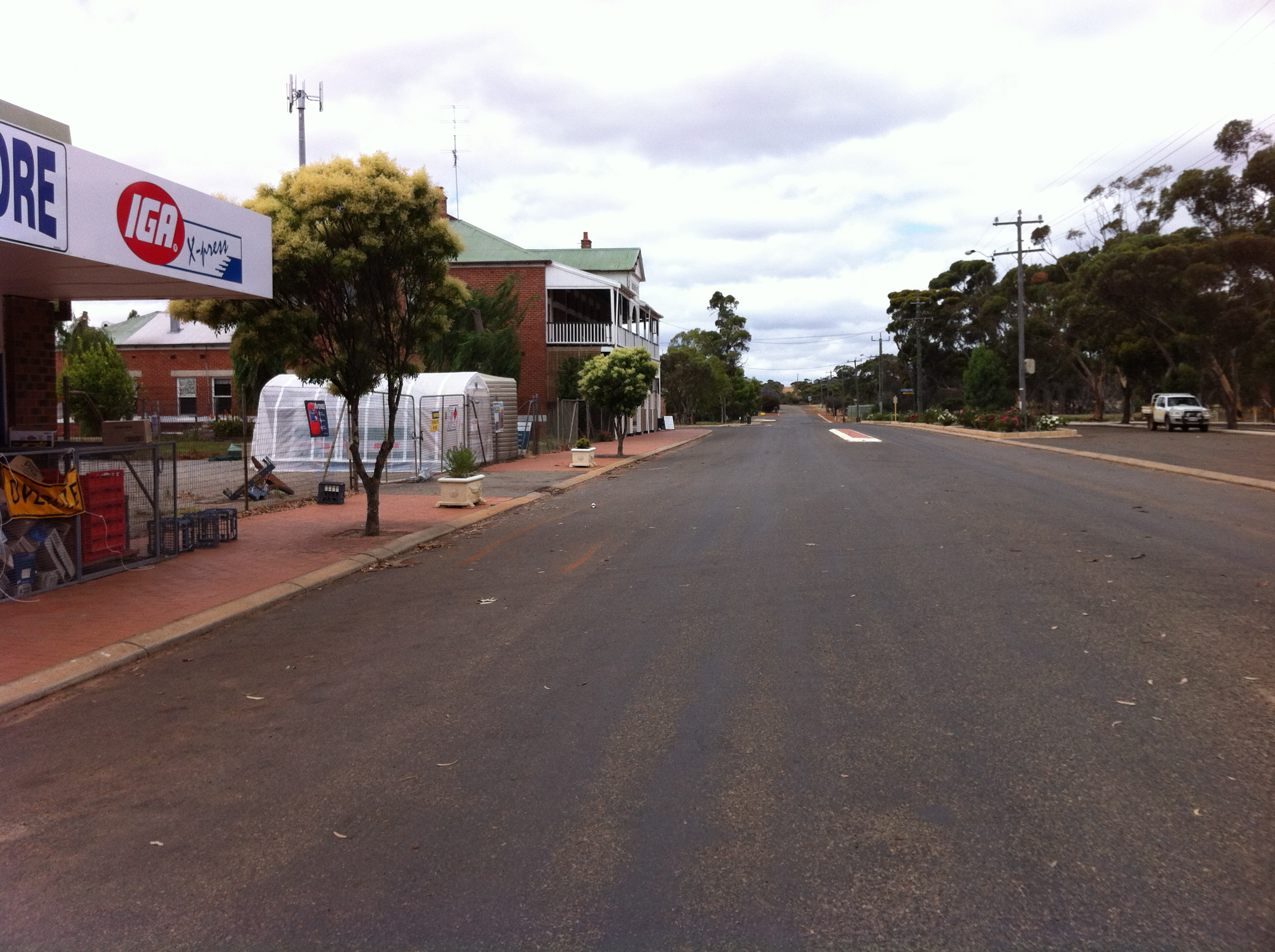 Photo of the main street in Kukerin, Western Australia